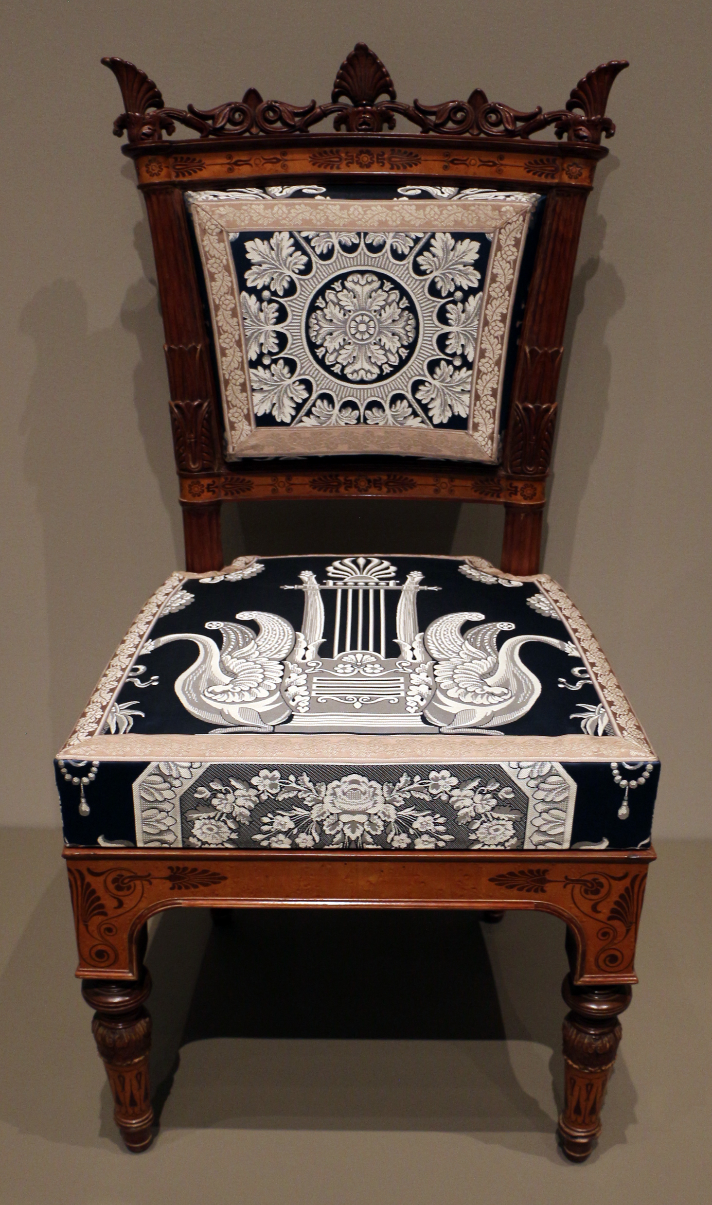 European furniture in the Art Institute of Chicago